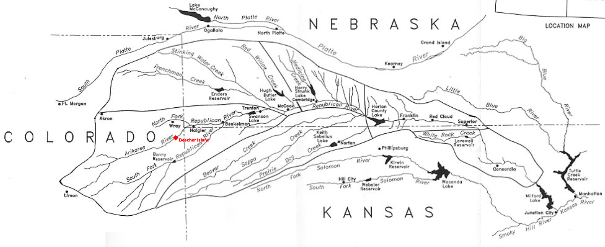 Map of the Republican River area with the location of Beecher Island highlighted in red. Modified from the Republican River map from the Bureau of Reclamation, U.S. Department of the Interior. original img URL